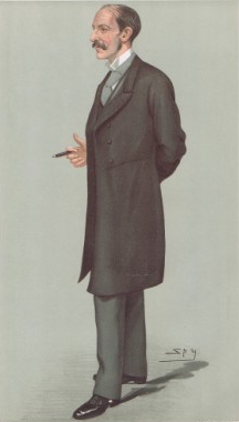 Caricature of Sir A Milner KCB. Caption read "High Commissioner".